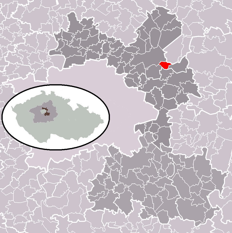 Location of Nový Vestec municipality within Prague-East District and administrative area of Brandýs nad Labem-Stará Boleslav as a Municipality with Extended Competence.